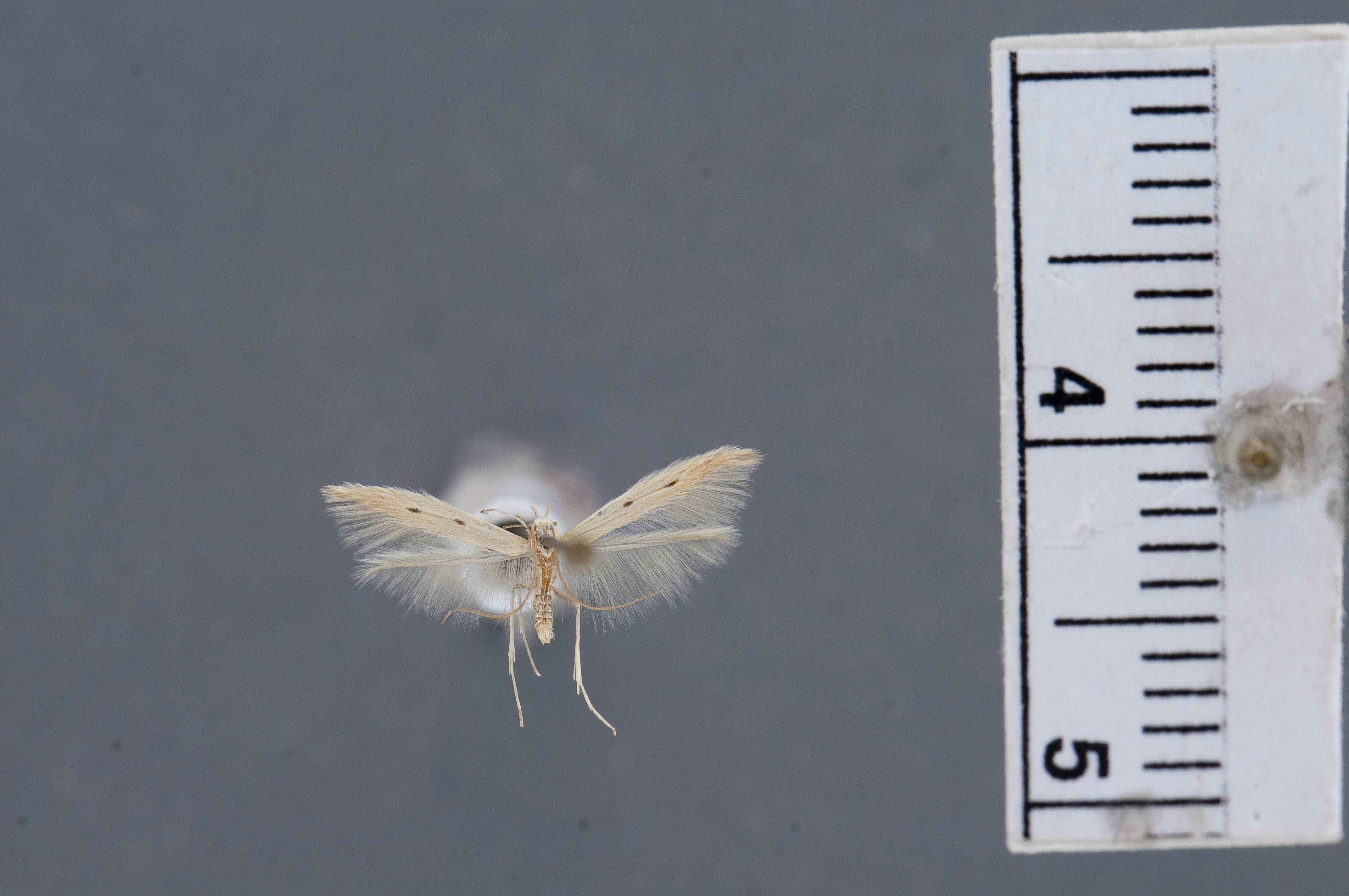 Chedra pensor holotype USNMENT00835531 Specimen from Department of Entomology, NMNH, Smithsonian Institution